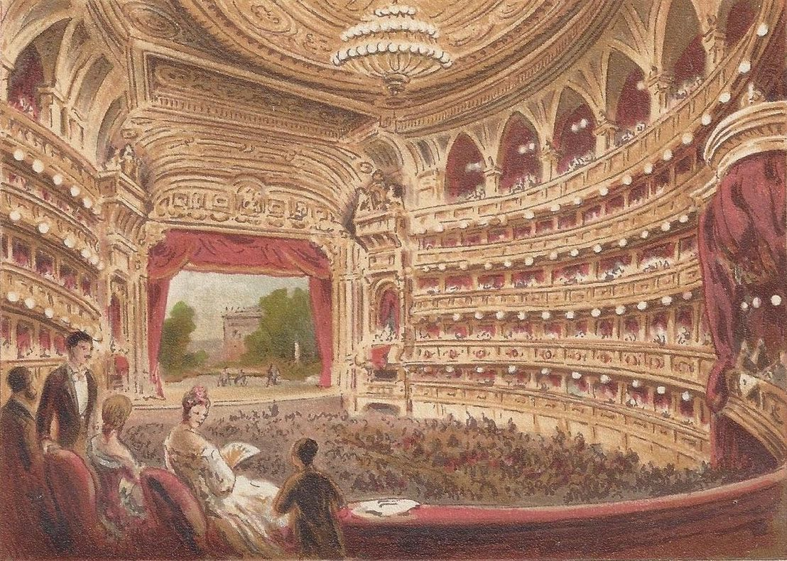 Wien, Hof-Oper (Inneres), Farblithographie